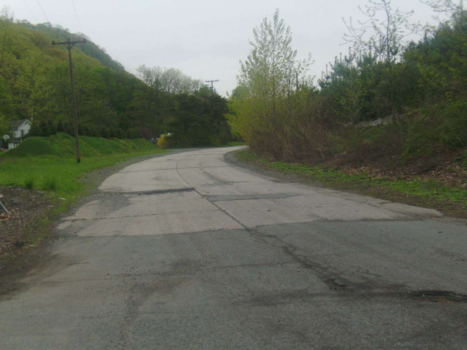 A short stretch of the original paving of New Jersey Route 163 in Delaware, New Jersey. Formerly US Route 46, NJ 163 the highway was never repaved.